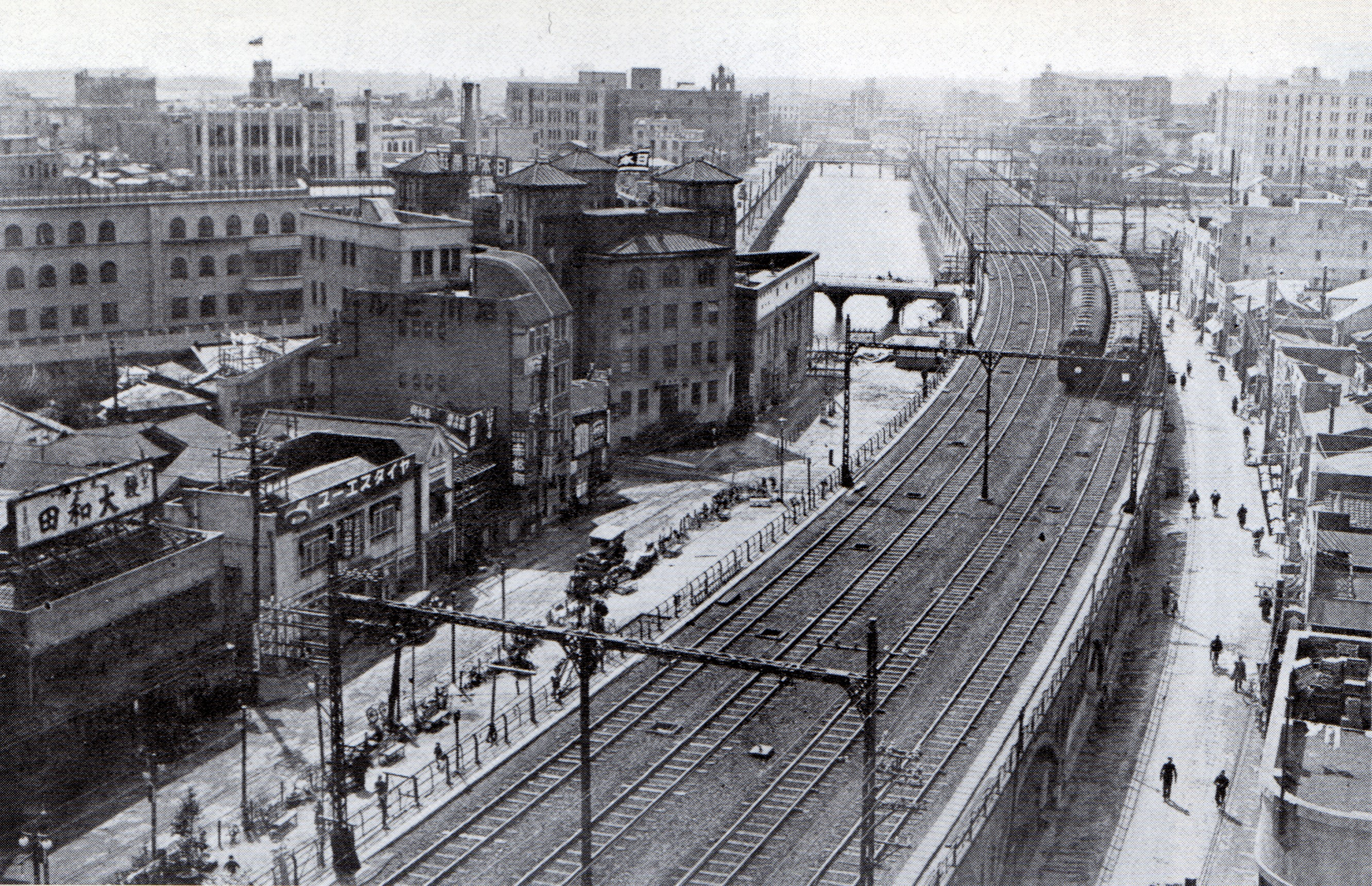 Elevated railway that carries Tokaido mainline to Tokyo station in 1931.